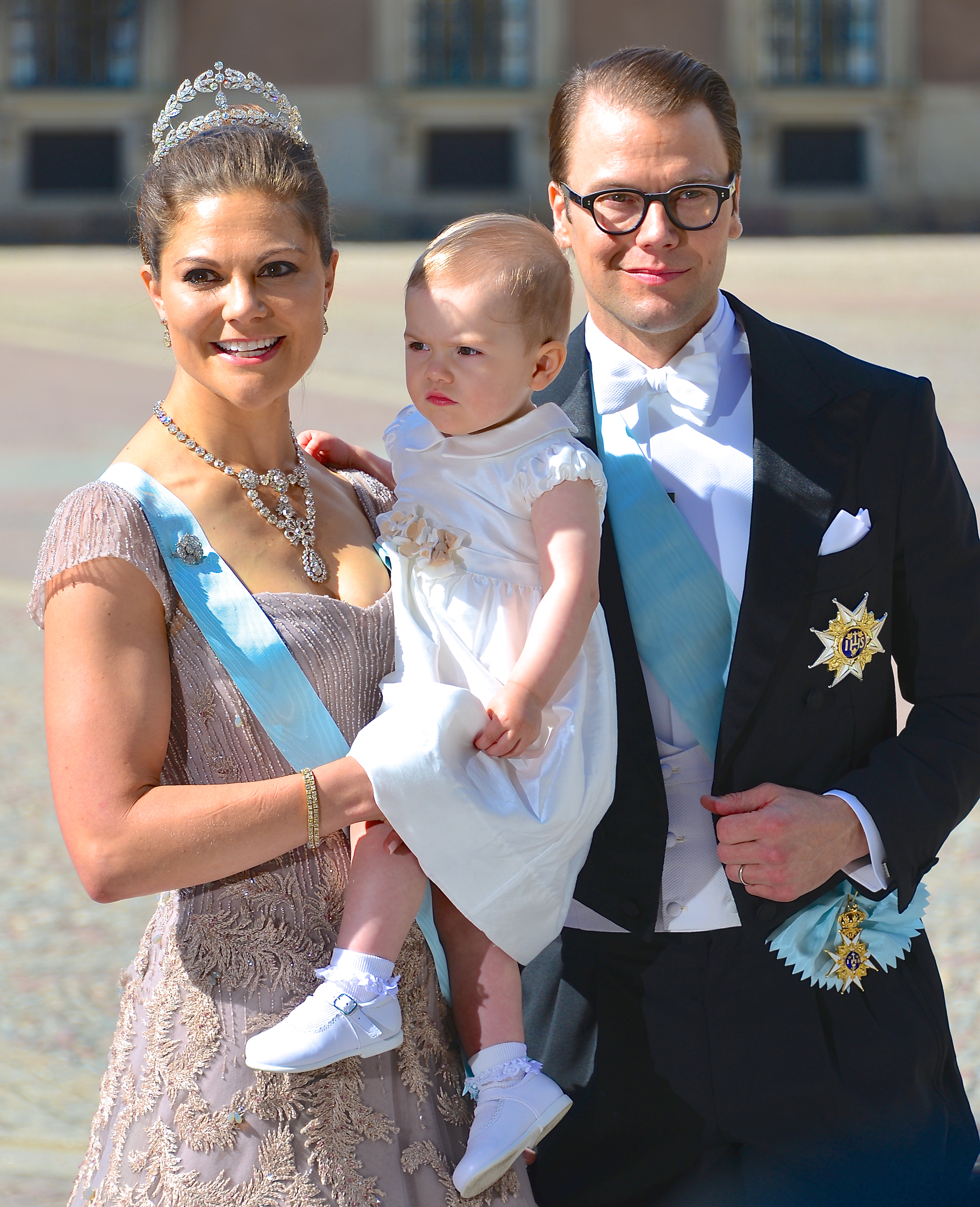 Crown Princess Victoria, Princess Estelle and Prince Daniel on the way to the castle church at the Royal Palace in Stockholm for the wedding between Princess Madeleine and Christopher O'Neill, June 8, 2013.